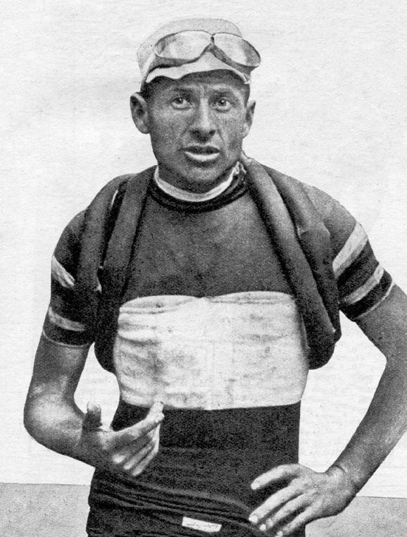 Alfredo Binda, winner of the 1927 Giro d'Italia.